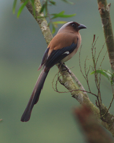 Grey Treepie (Dendrocitta formosae) ssp formosae from Taiwan